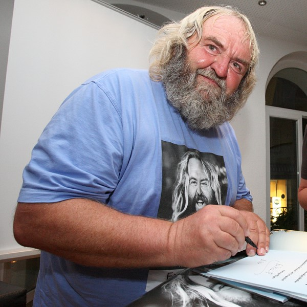 Sepp Bögle signs his new Book "Begegnungen"